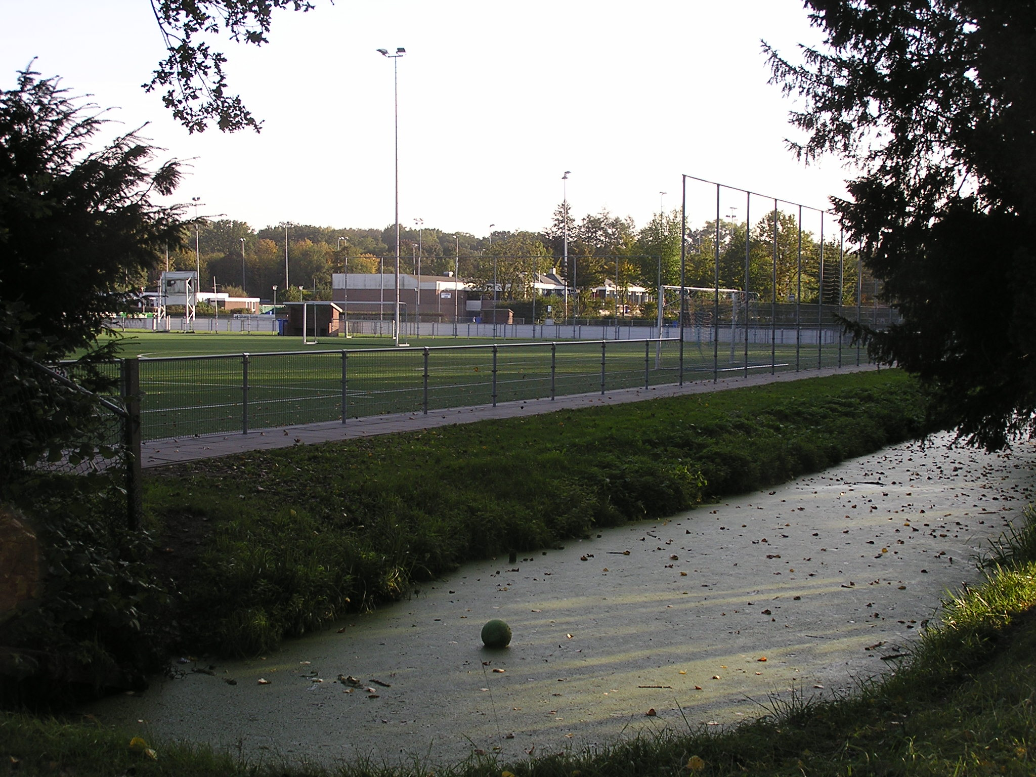 Kampong (hockeyclub), Utrecht